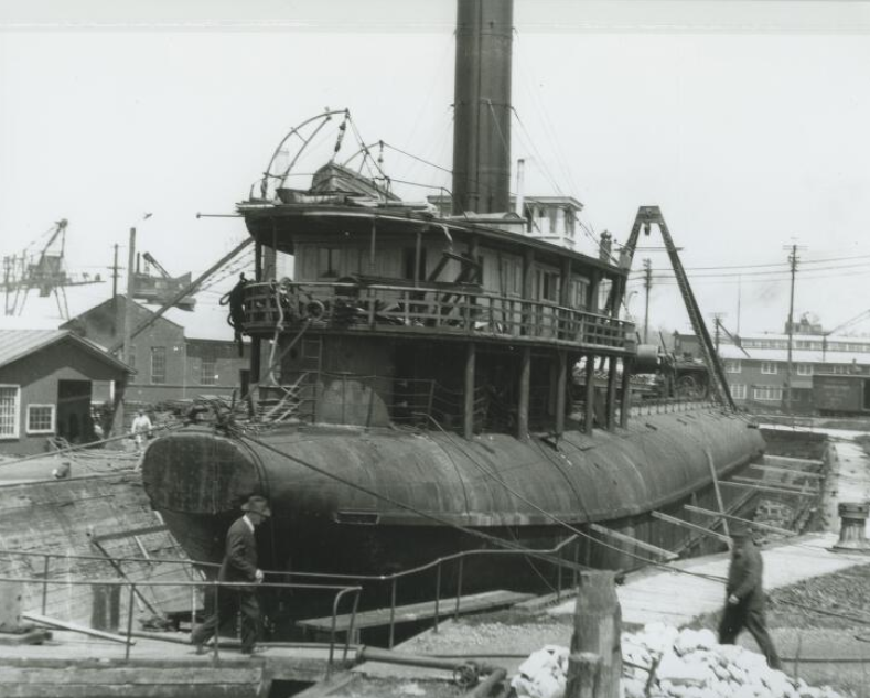 The steamer Clifton in dry dock